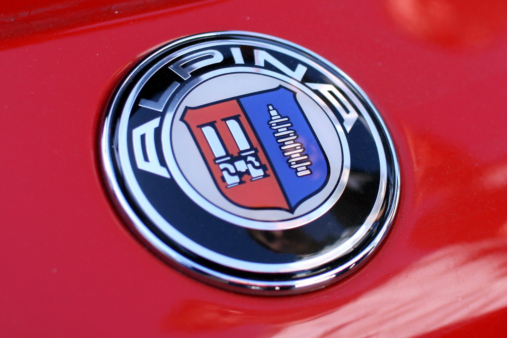 Alpina logo on B12 5.7 Coupe model.